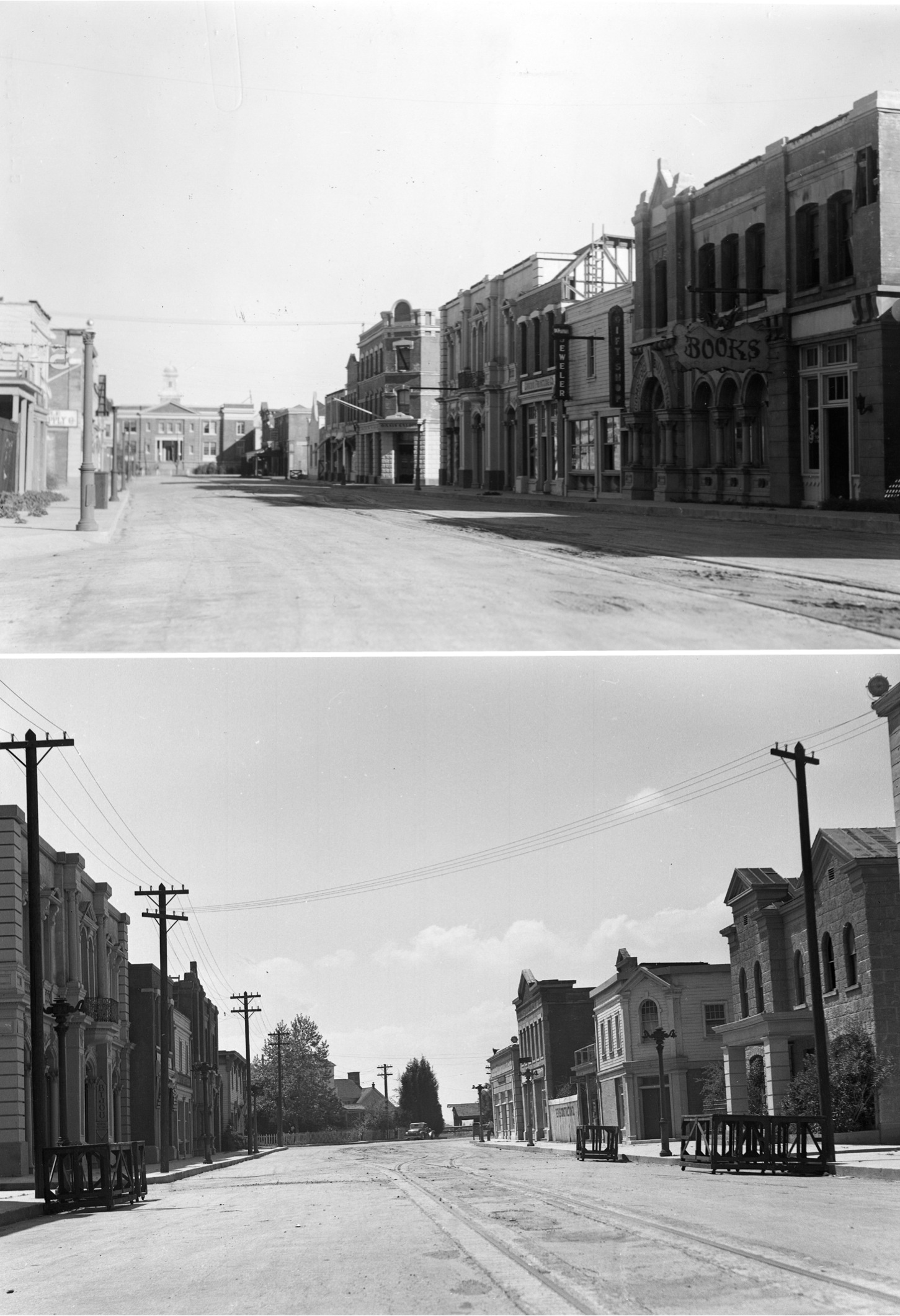 Images looking north and south on Genesee Street.